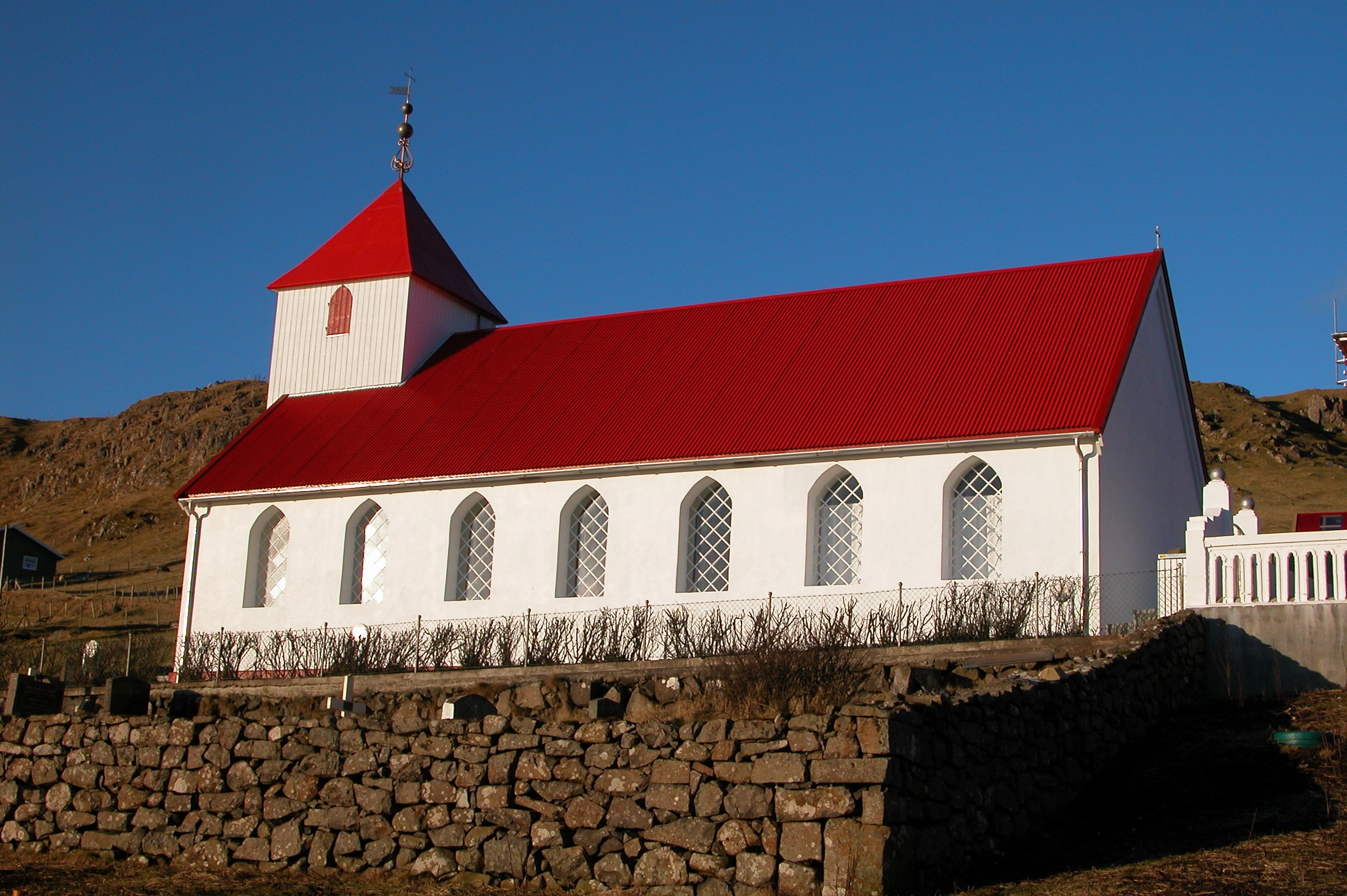 Church of Sumba, Faroe Islands